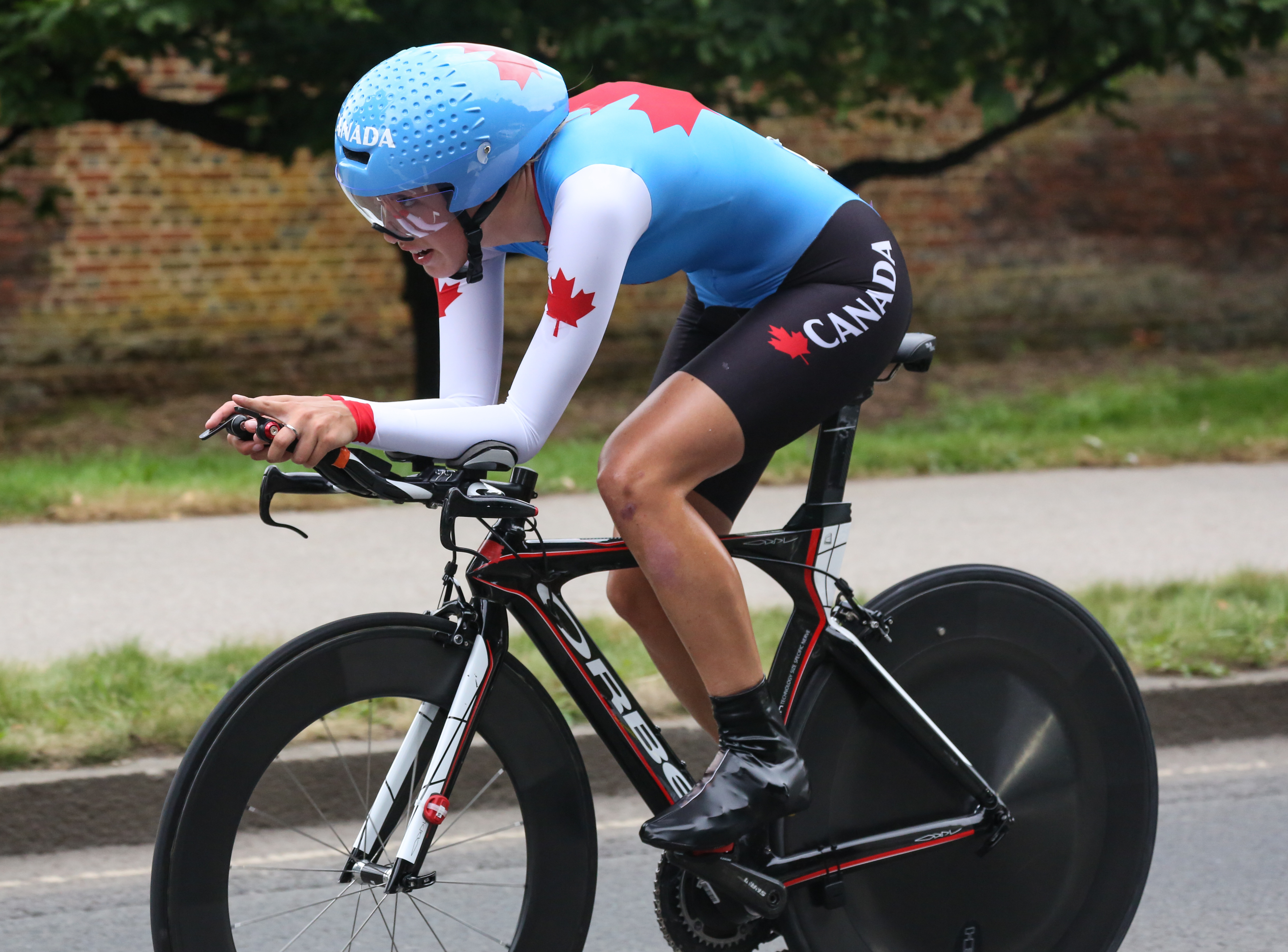 Denise Ramsden competing in the London 2012 Women's Olympic Time Trial.